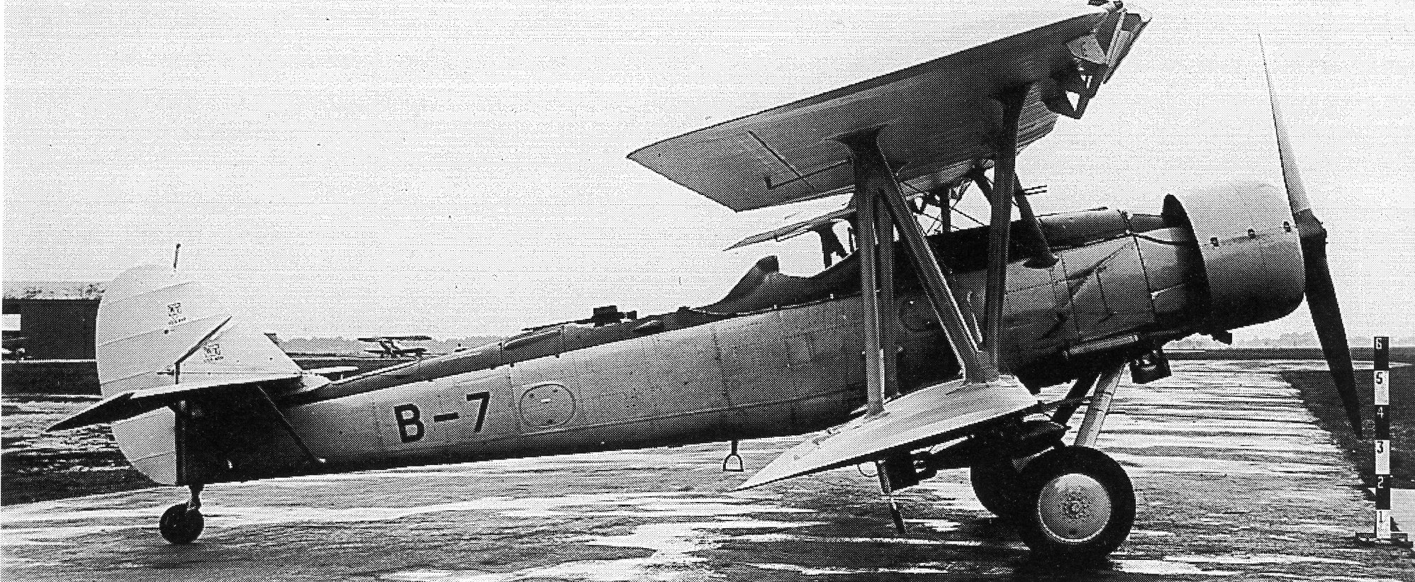 The sole Blackburn B-7, May 1935.